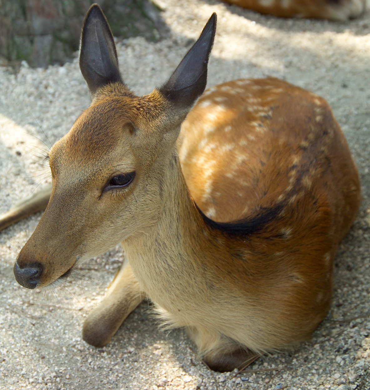 Deer are a common sight at Itsukushima Shrine, Miyajima, Hiroshima Prefecture, Japan. I took the photo.